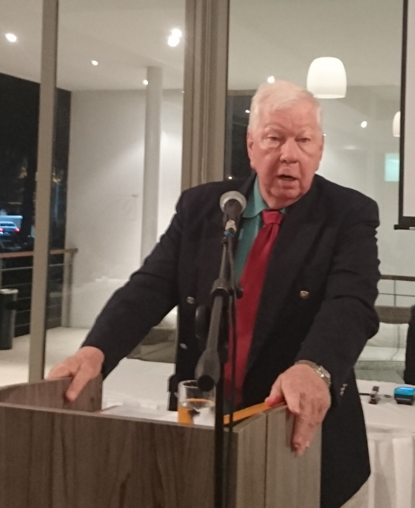 A photograph of the South African author RW Johnson speaking at the 2016 Barry Streek Memorial lecture in Cape Town, South Africa.